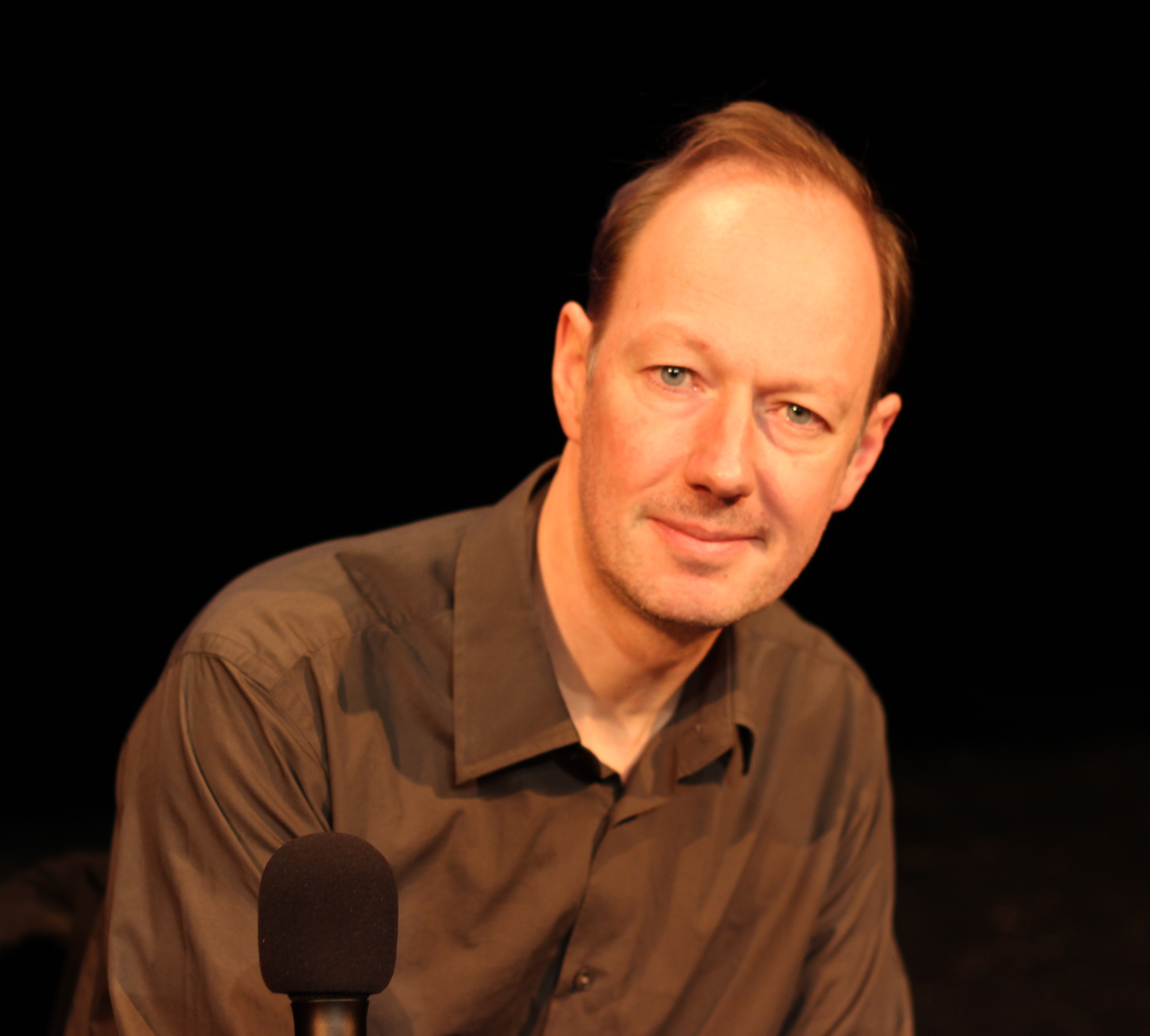 German satirist and politician Martin Sonneborn.